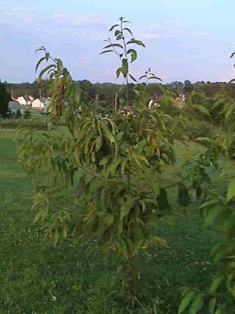 Resistant American Chestnut Sapling